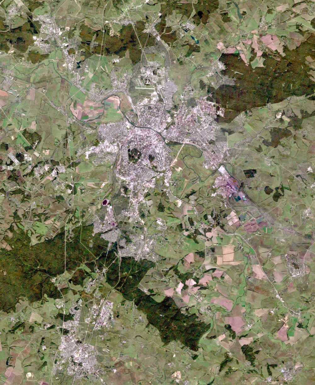 Tula Urban Agglomeration, Russia, Landsat-7 satellite image, near natural colors, 30 m resolution